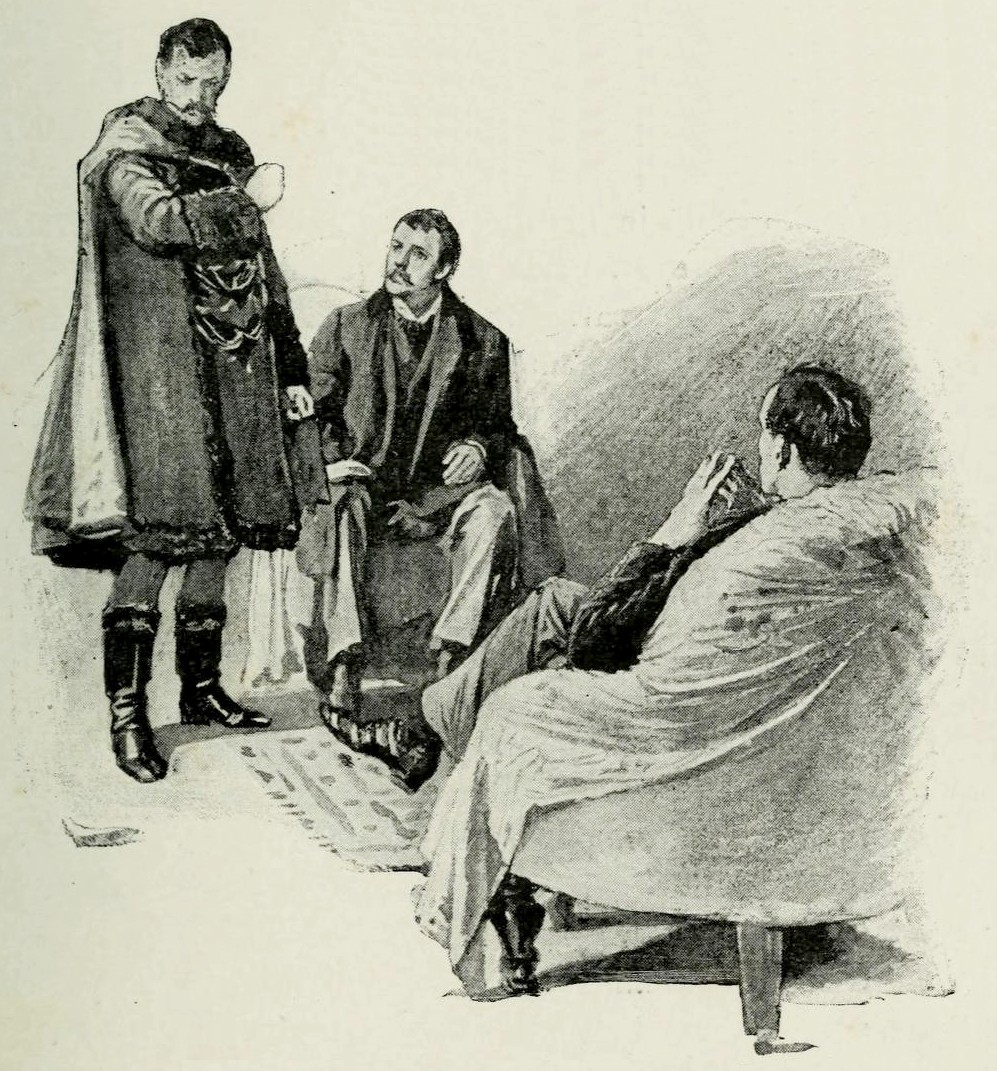 Illustration of the short story A Scandal in Bohemia, which appeared in The Strand Magazine in July, 1891. This illustration appeared on page 65, and is captioned "HE TORE THE MASK FROM HIS FACE."